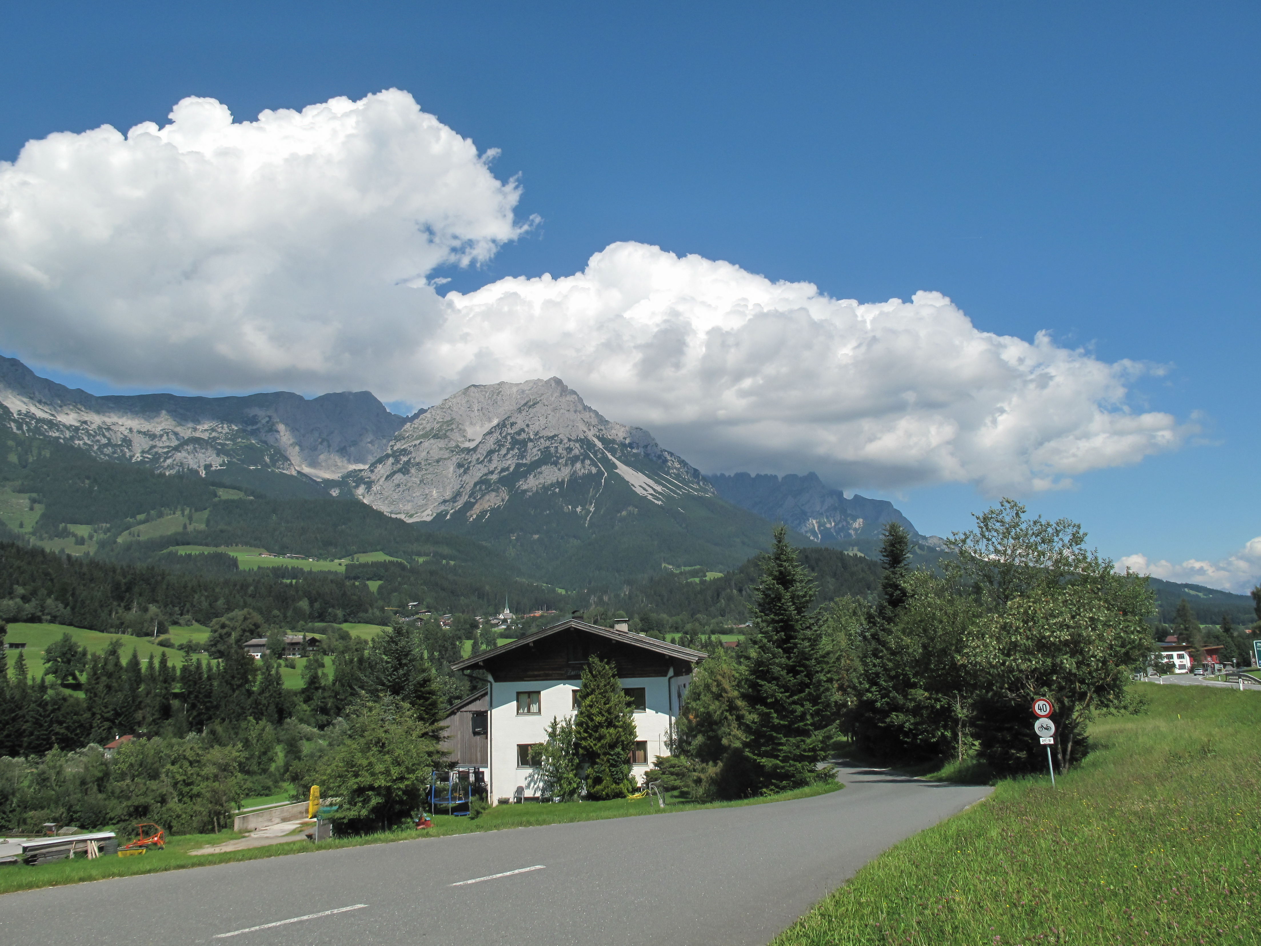 tussen Söll en Ellmau, view to a street in panorama